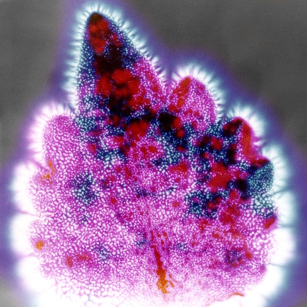 An amateur Kirlian Photograph of a Coleus leaf, using 35mm color film and a small Tesla Coil as a power source.